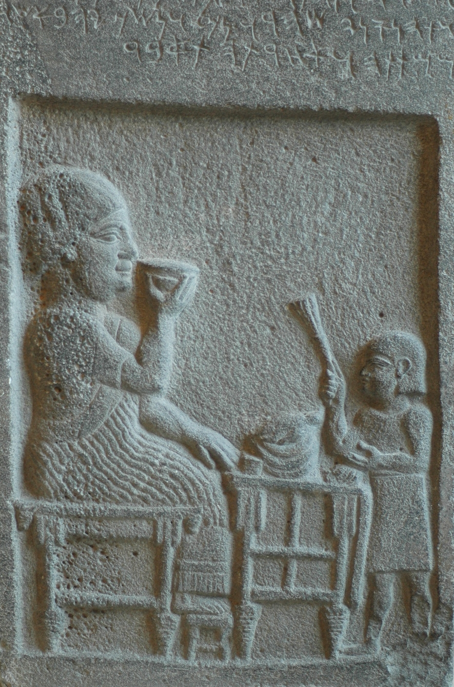 Funeral stele of Si` Gabbor, priest of the Moon God. Basalt, early 7th century BC, found in Neirab (Syria), bears an Aramaic inscription.